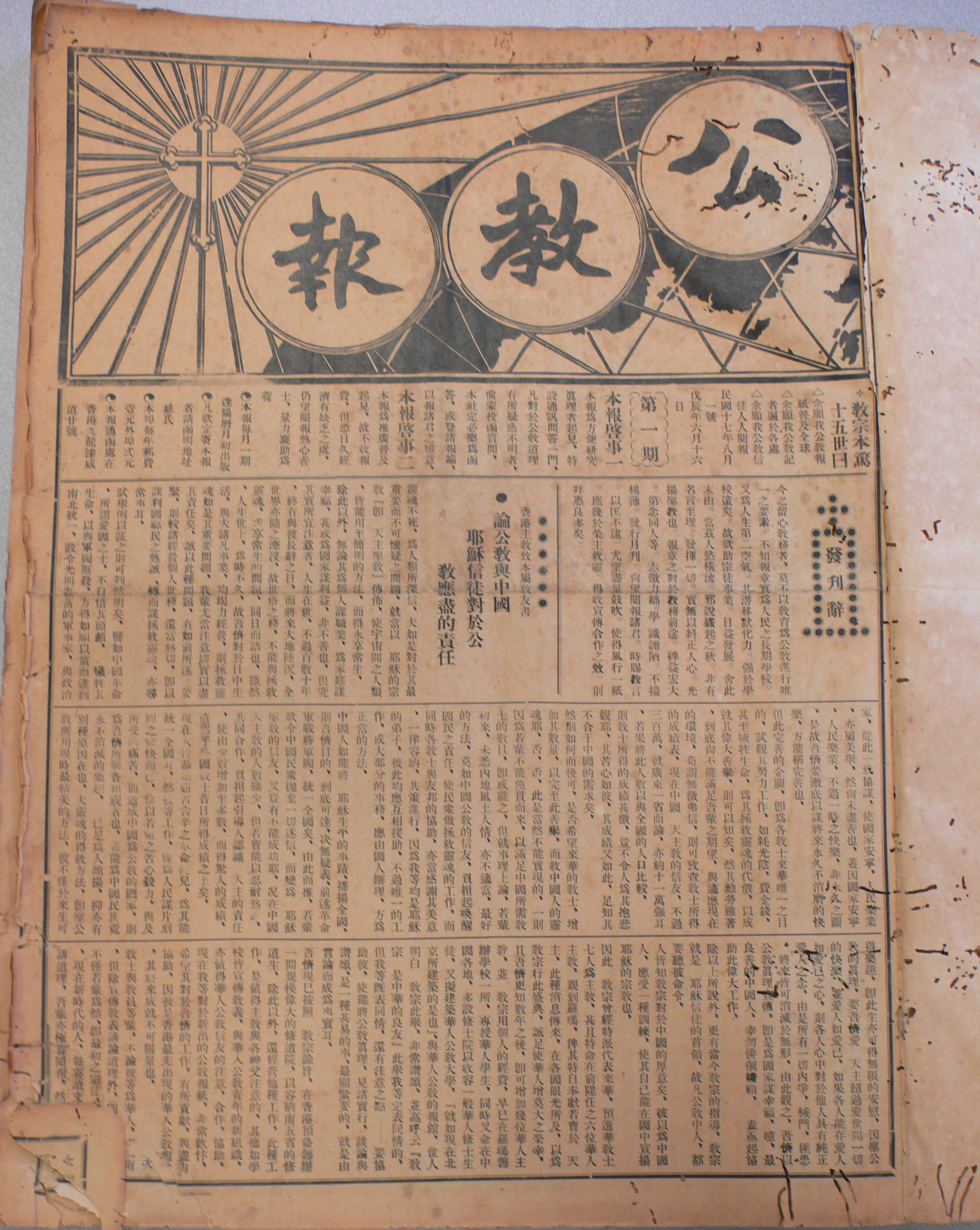 The 1st issue of Kung Kao Po, a Catholic Newspaper, published in 1928